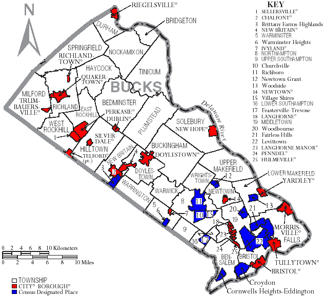 Map of Bucks County, Pennsylvania, United States with township and municipal boundaries